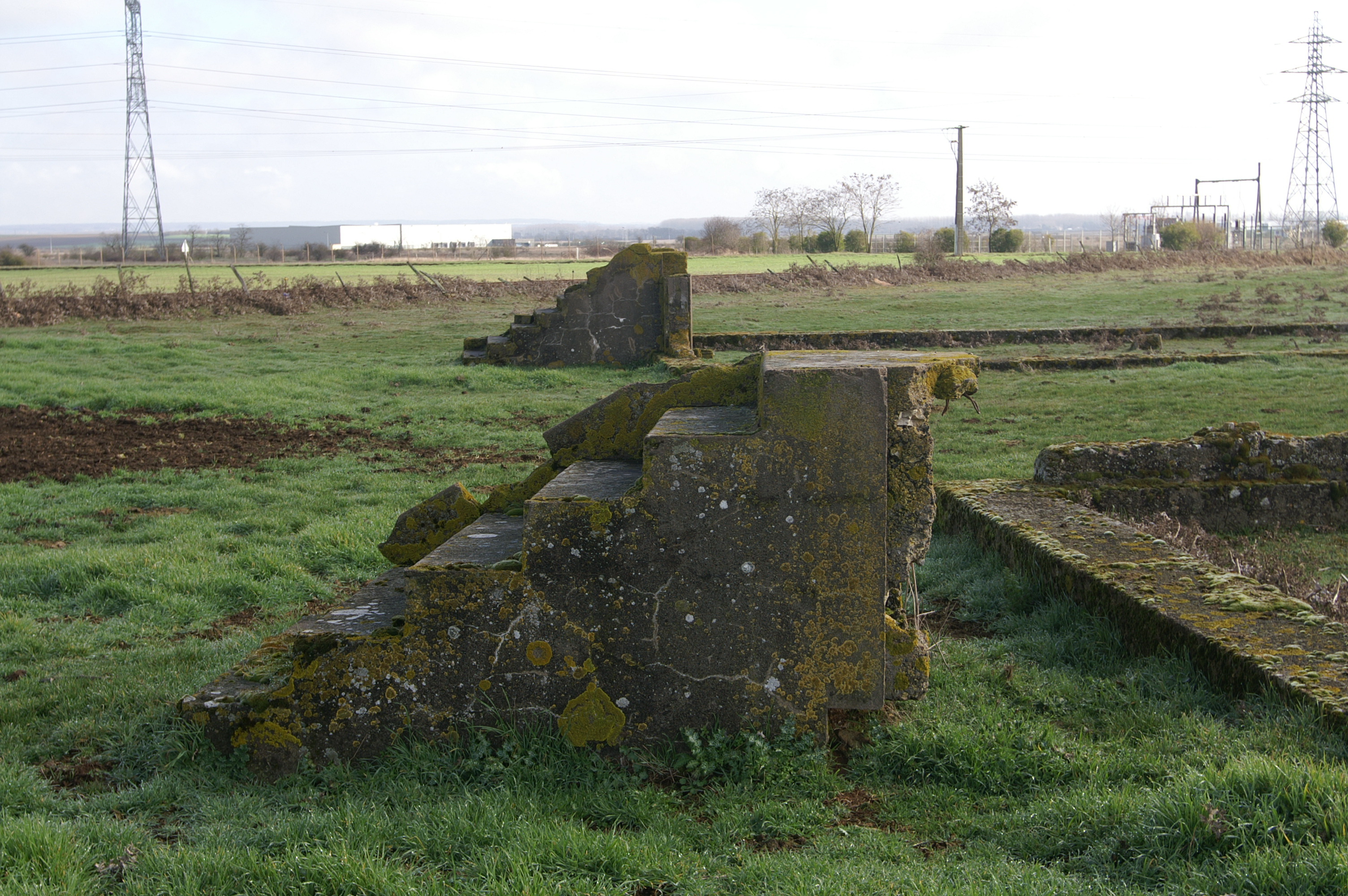 Concentration camp of Montreuil-Bellay.